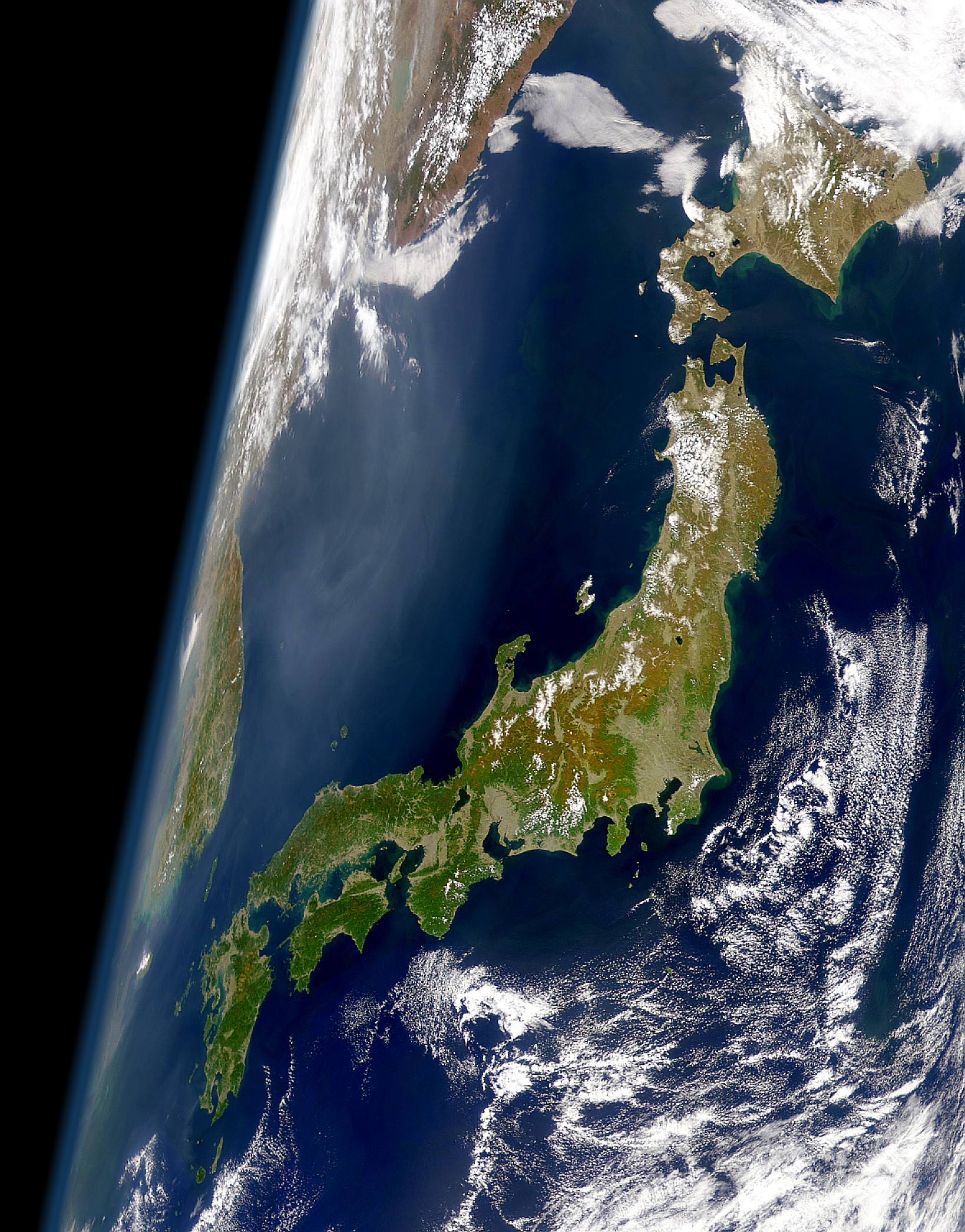 View of Japan taken from a satellite (1999)